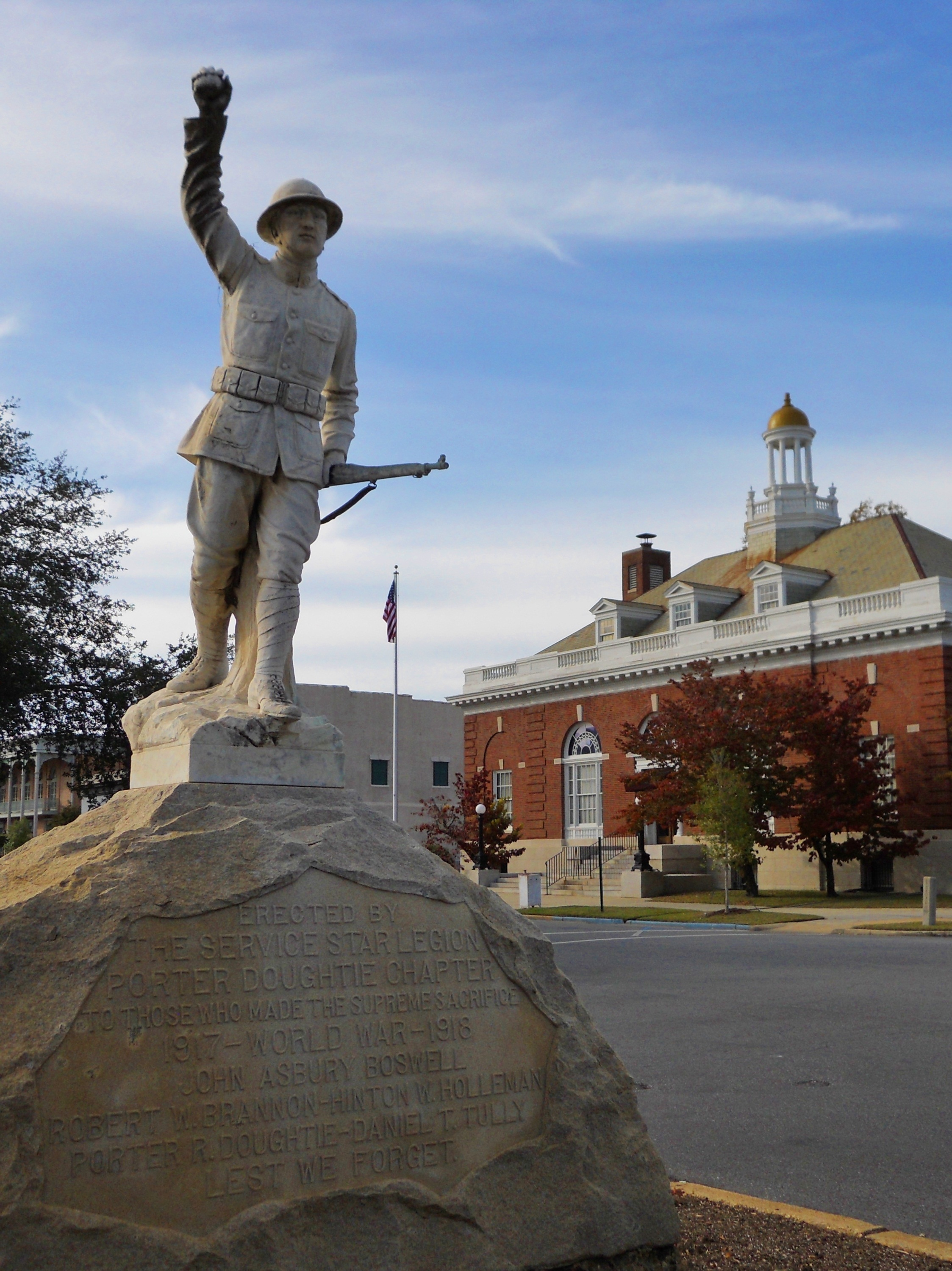 This is a photo of the WWI Memorial in Eufaula, AL.